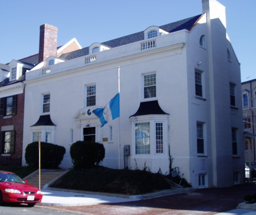 Embassy of Guatemala, Washington, D.C.